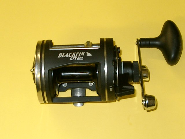 3rite